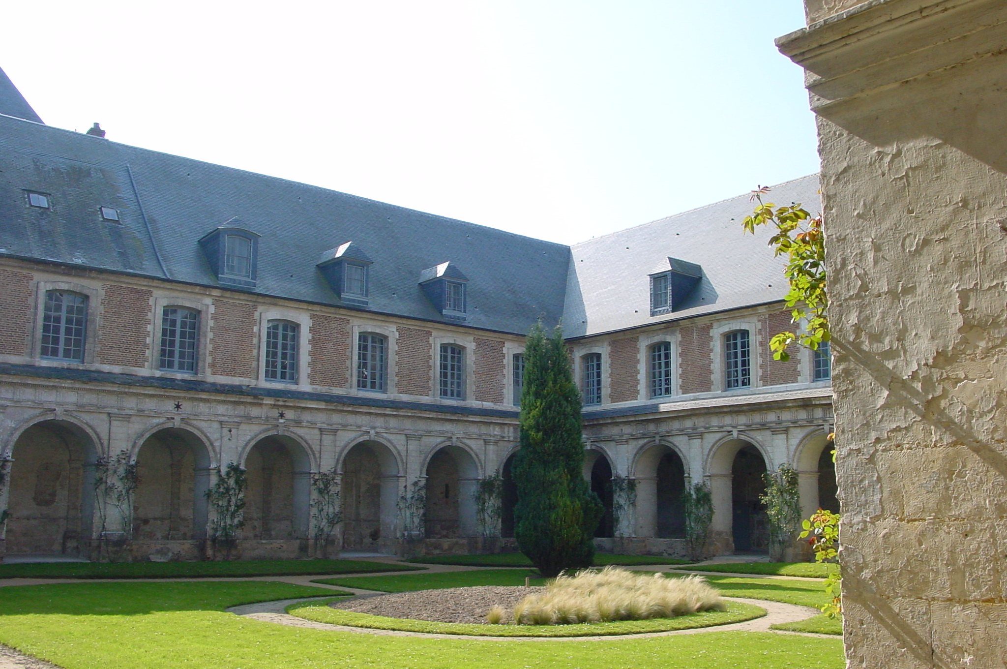 cloister of Valloires Abbey, Somme, France